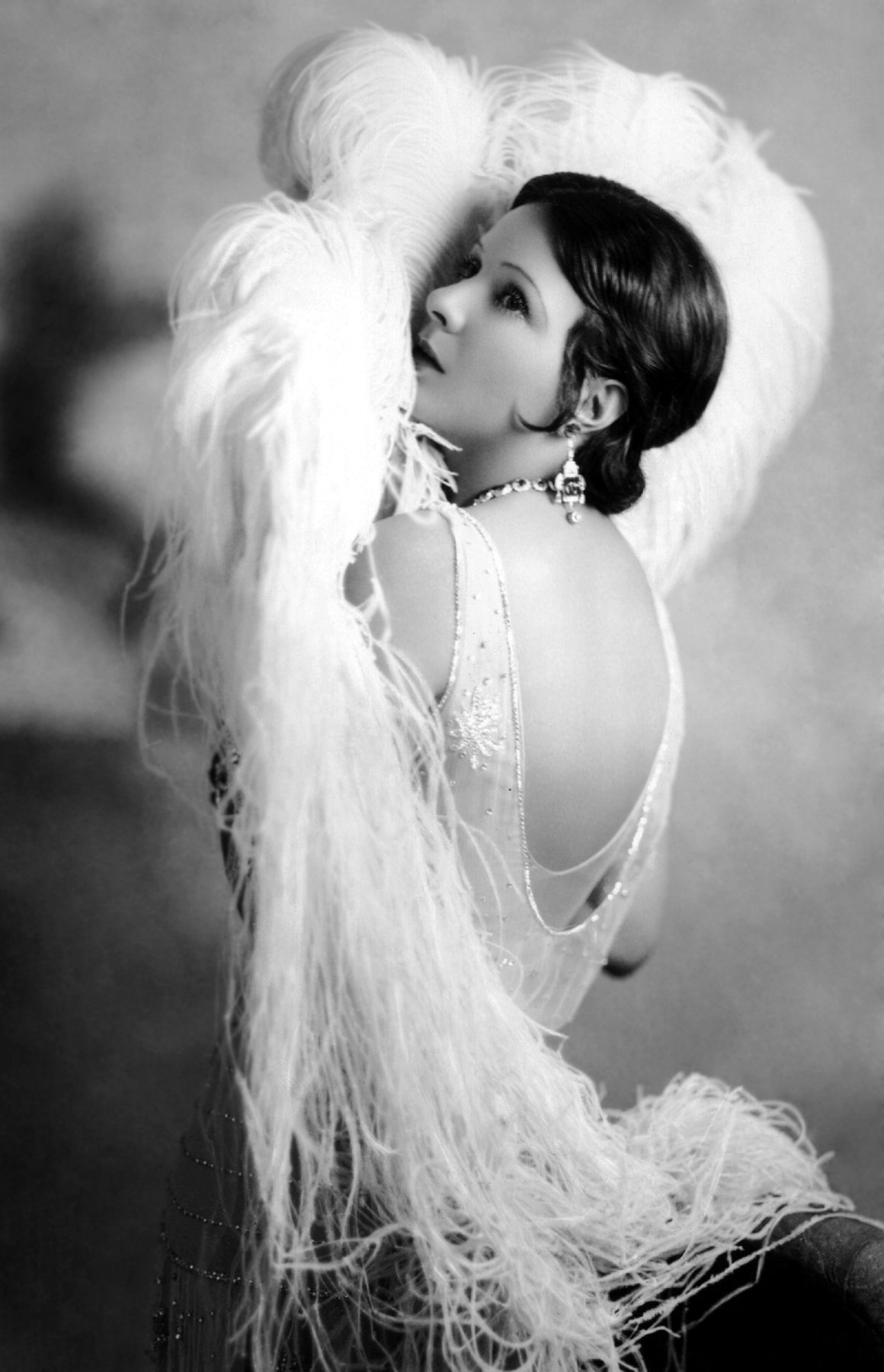 Norma Talmadge (Photo by General Photographic Agency)